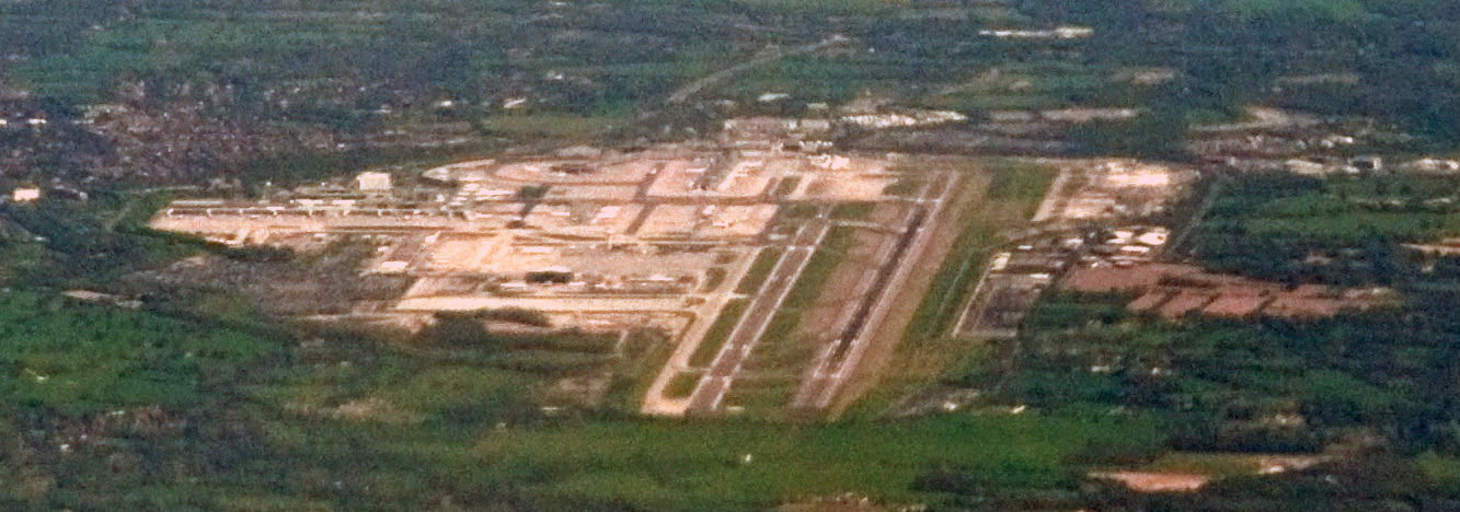 Arriving from Inverness in a Flybe Embraer 195